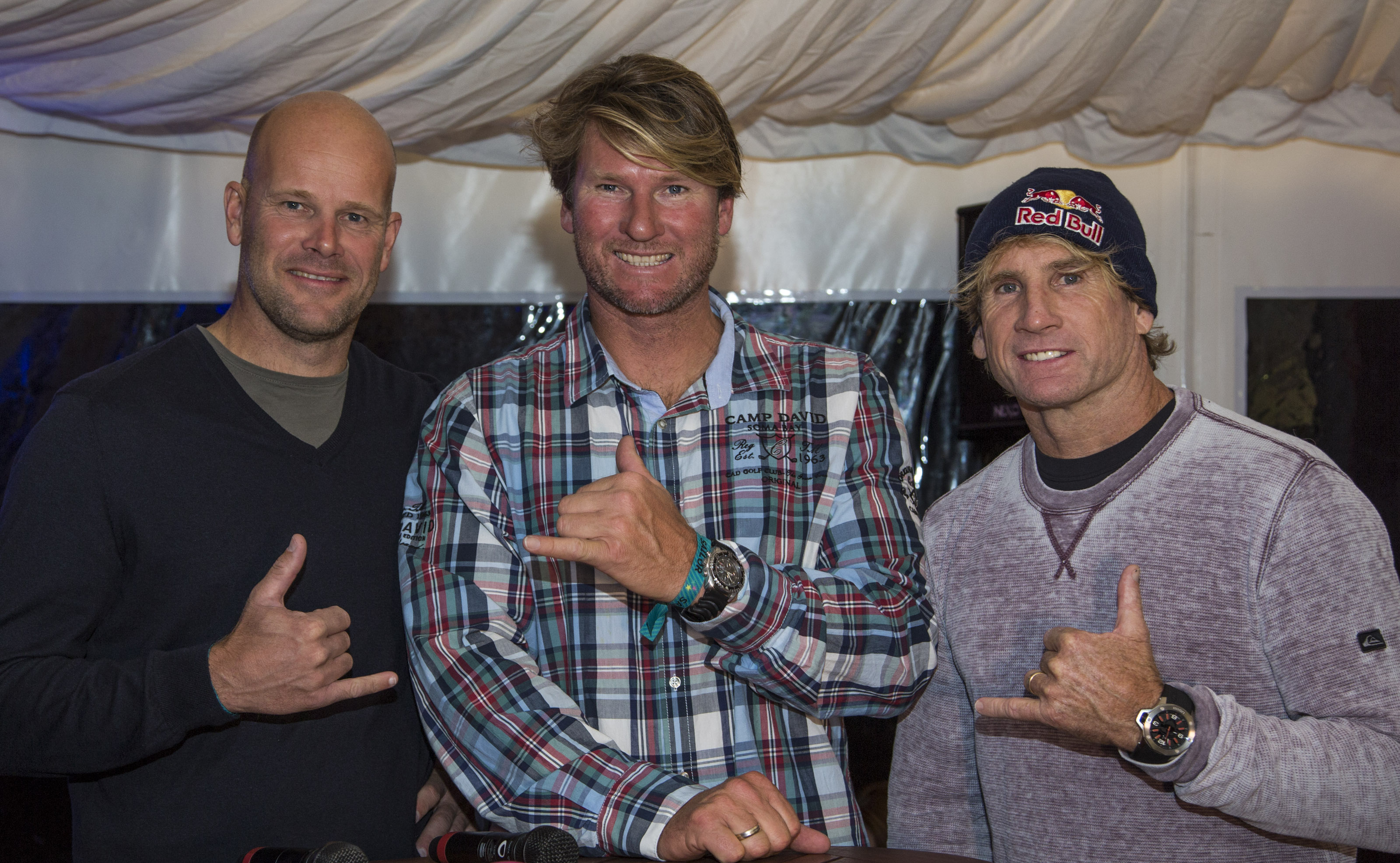 Bernd Flessner @ Windsurf World Cup Sylt 2013 with Bjørn Dunkerbeck and Robby Naish